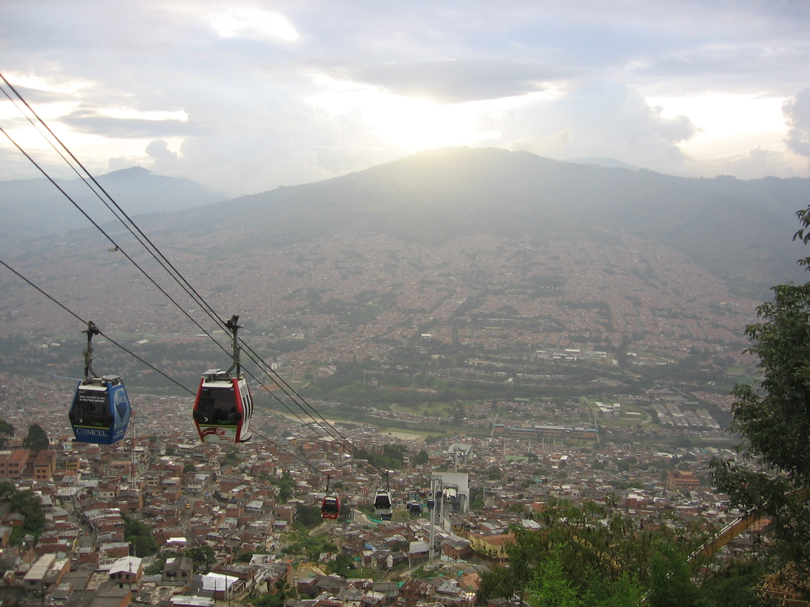 A view of the northern districts of Medellín, Colombia. The picture was taken from the hill quarter of Santo Domingo Savio (East) toward the West. It is possible to see the wagons of the Metro Cable. The northern districts are the poorest of the city.